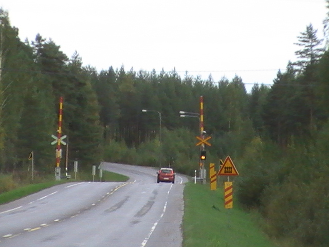 Level crossing in Eura, Finland